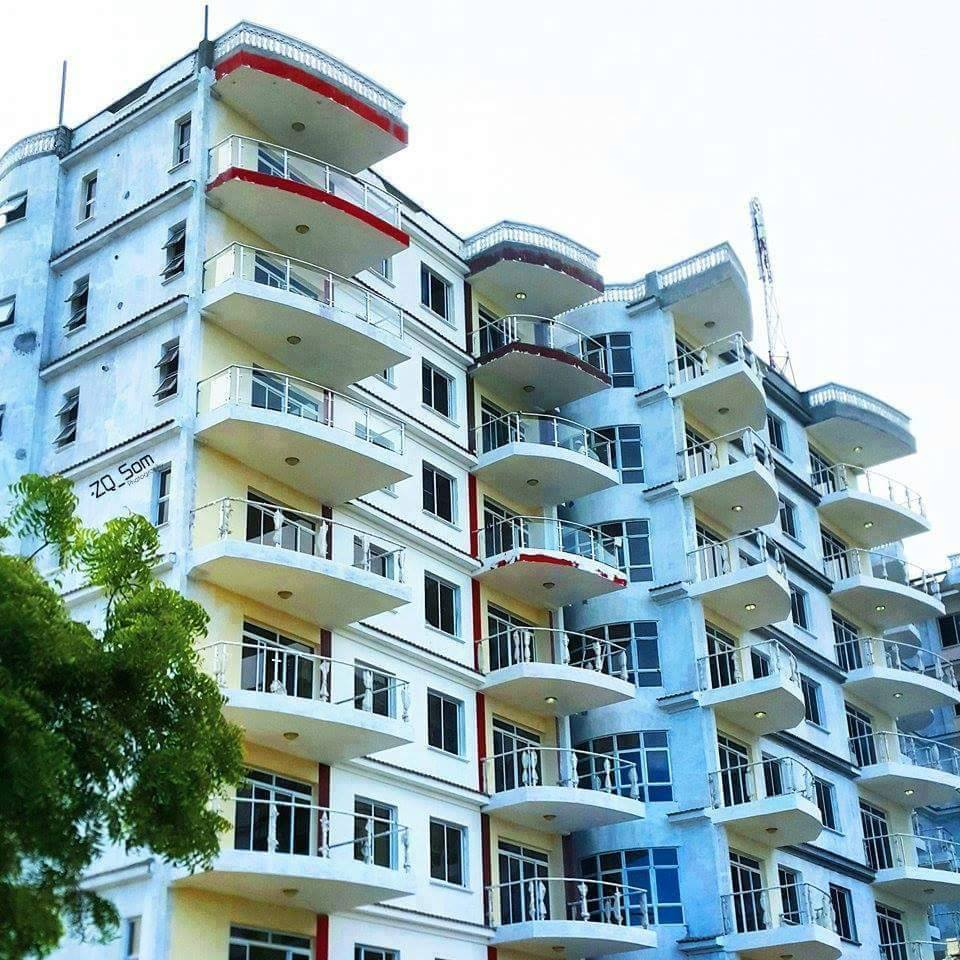 Your Mogadishu